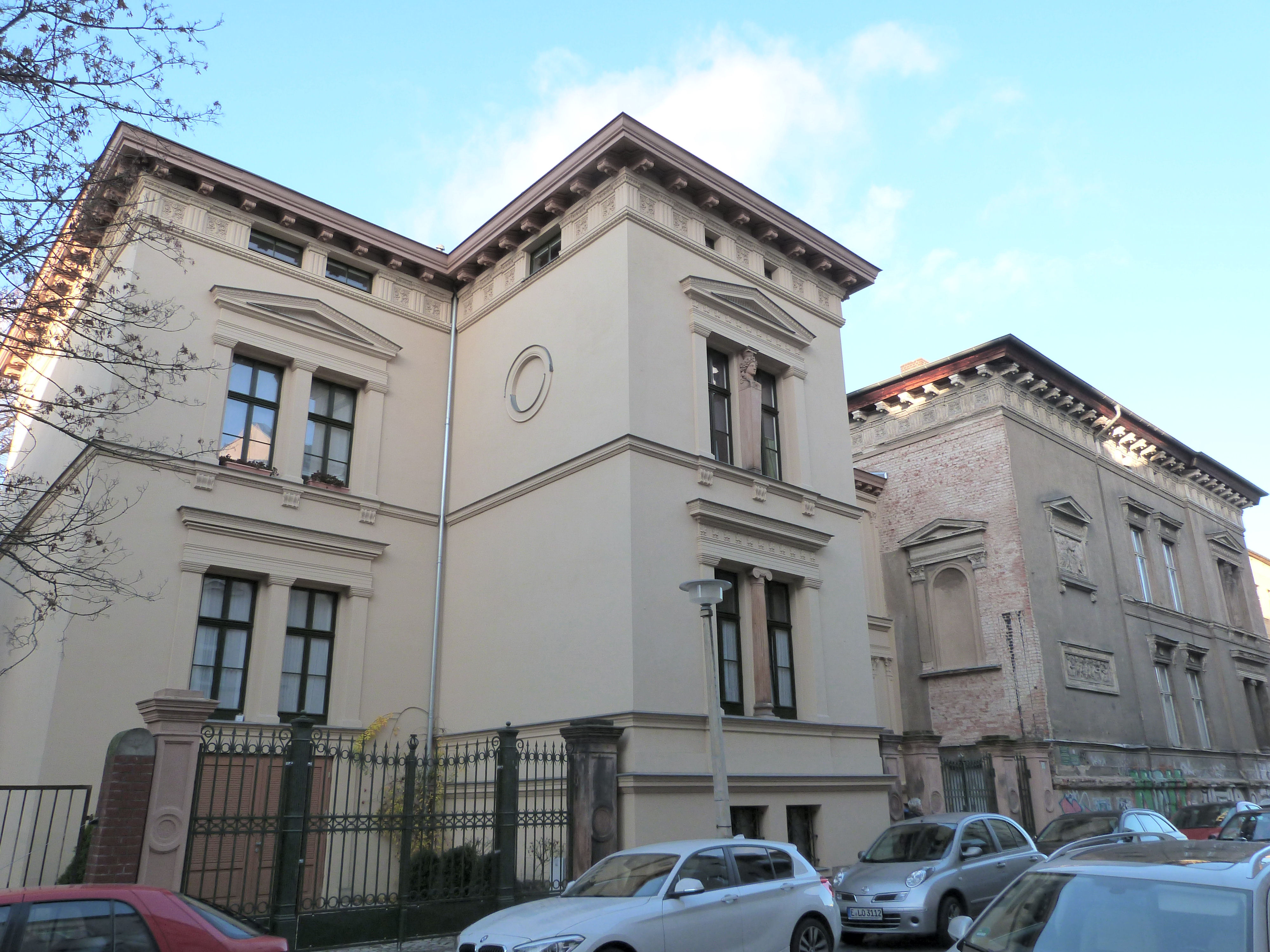 Villa Emil-Abderhalden-Strasse No. 9 in Halle (Saale)